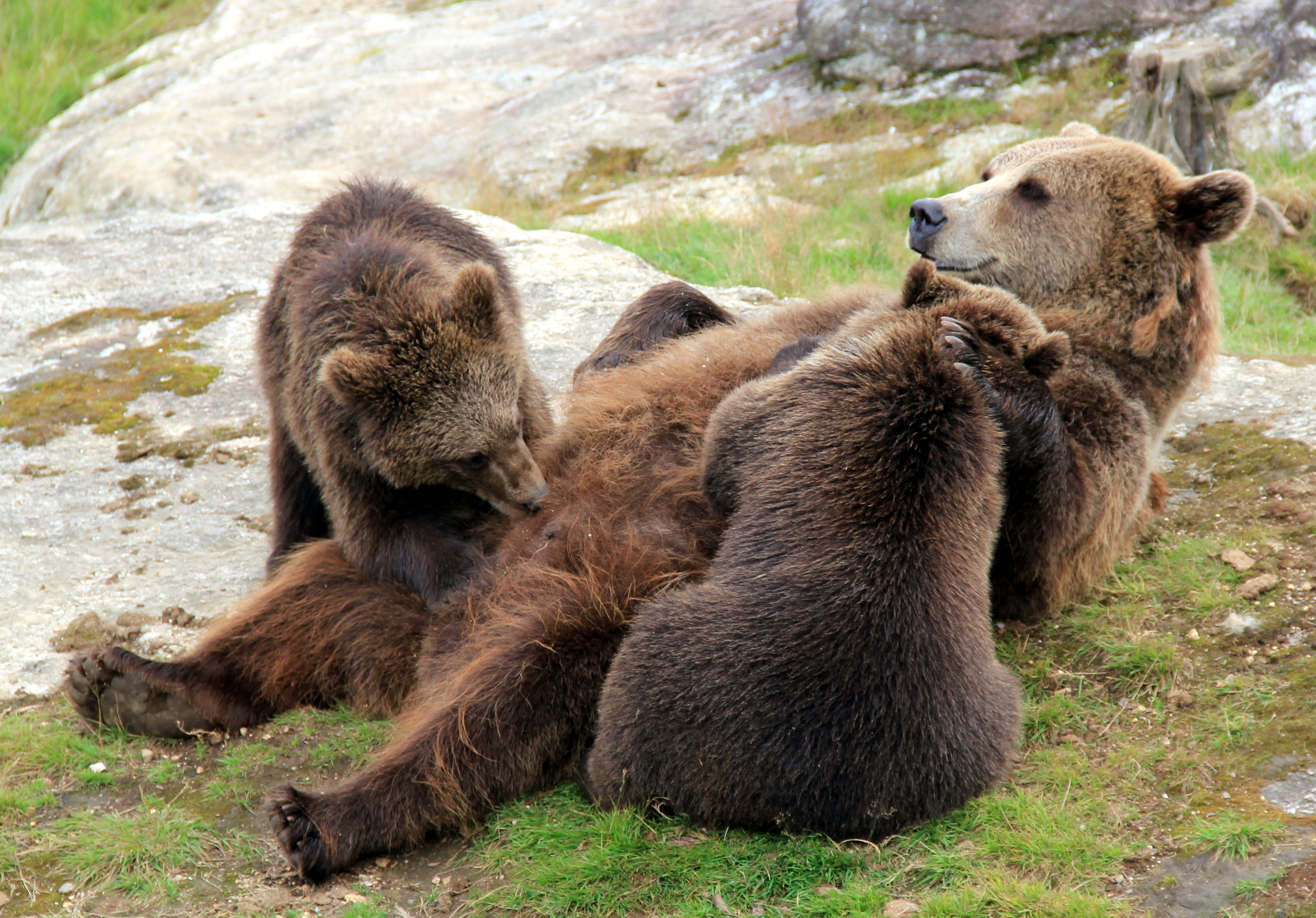 Bjørneparken in Flå, Norway - feeding cubs